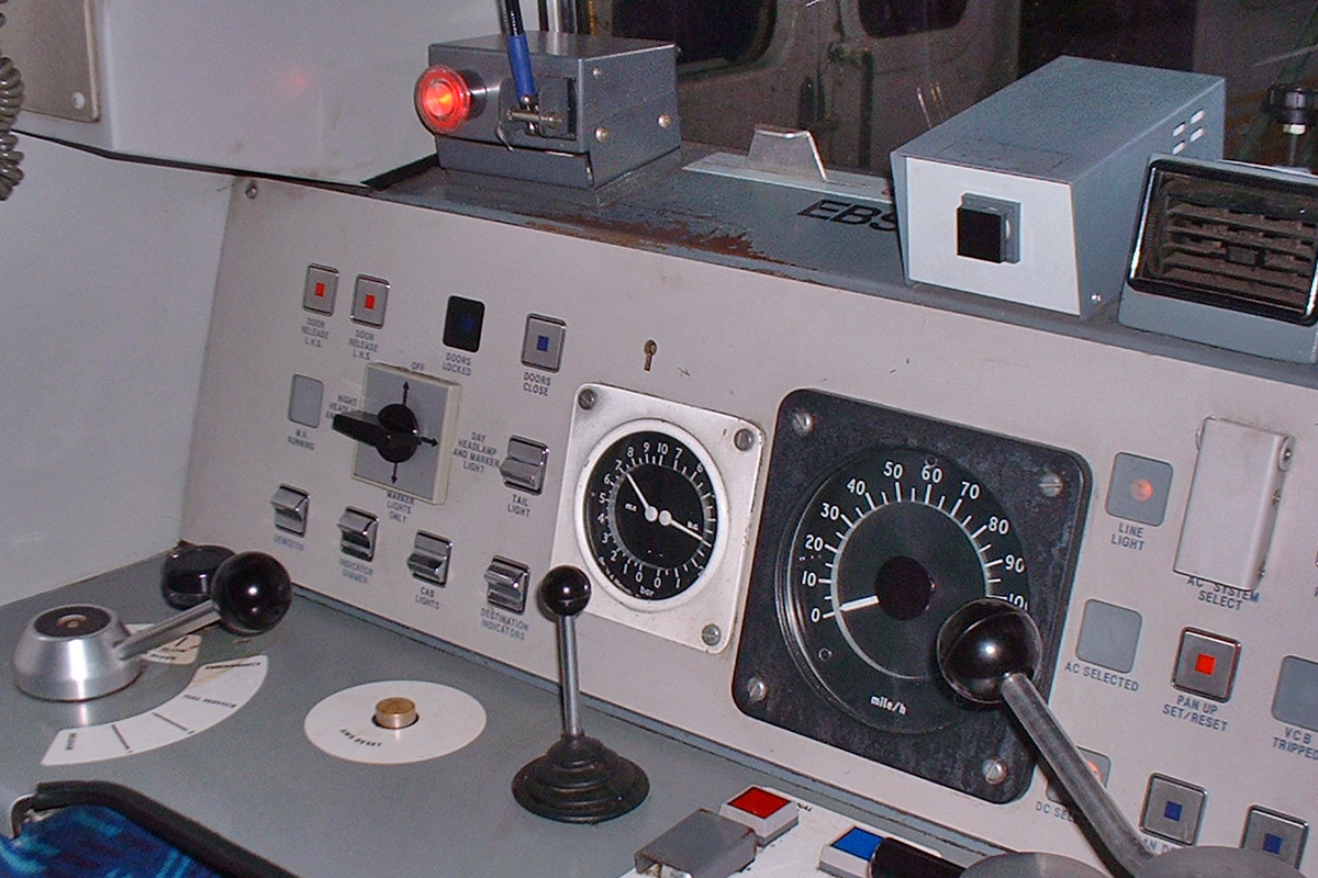 UK Class 319 EMU driver's desk